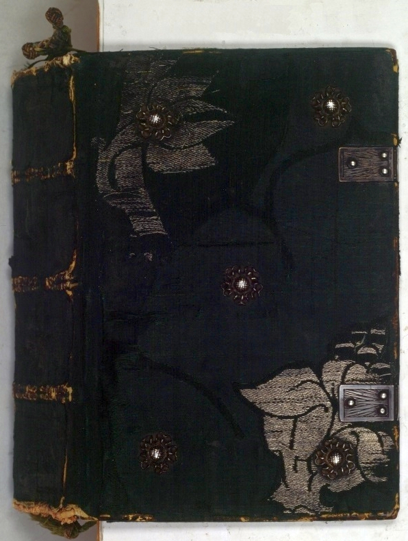 Prayer book for Duke Albrecht V of Austria The front cover. Wooden lid covered with green-silver brocade and silver fittings.Codex Vindobonensis Palatinus 2722